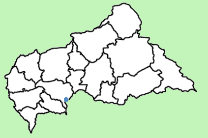 Map showing location of Bangui Autonomous Commune in Central African Republic